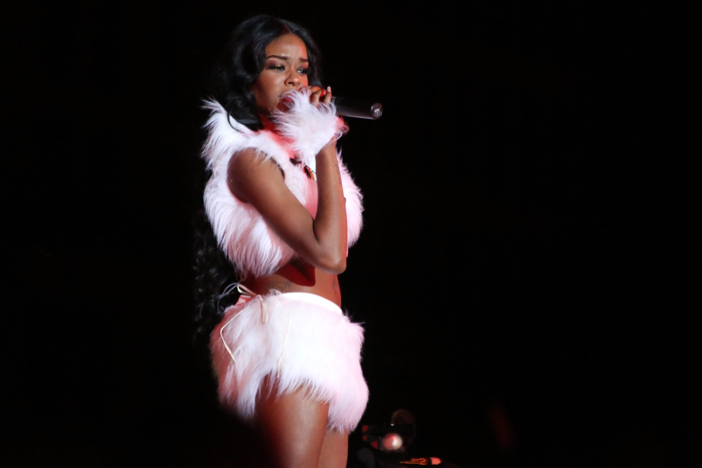 Azealia Banks, opening show of Life Ball 2013 at the city hall of Vienna, Vienna, Austria.